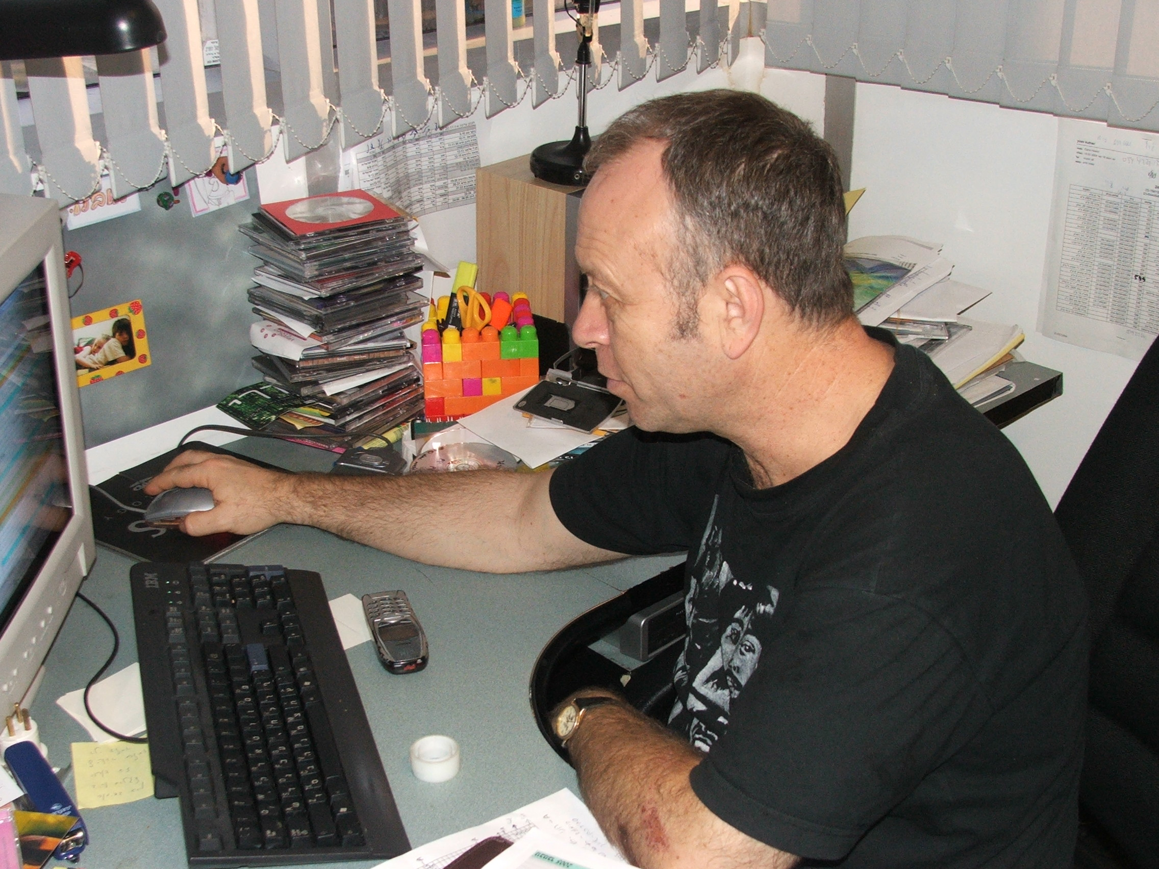 Yoav Kutner at work